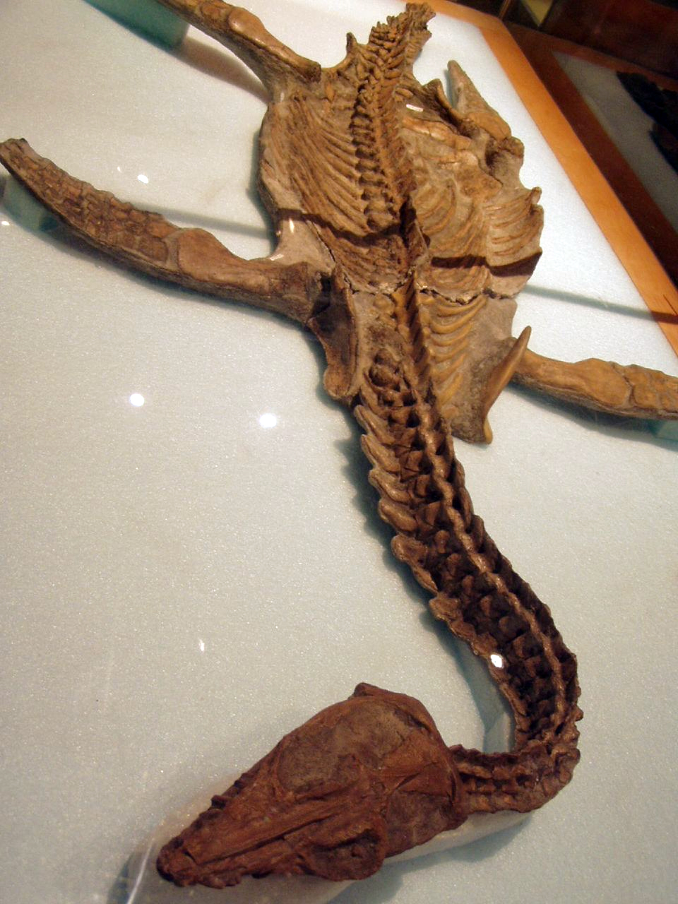 Nichollssaura at the Royal Tyrrell Museum.